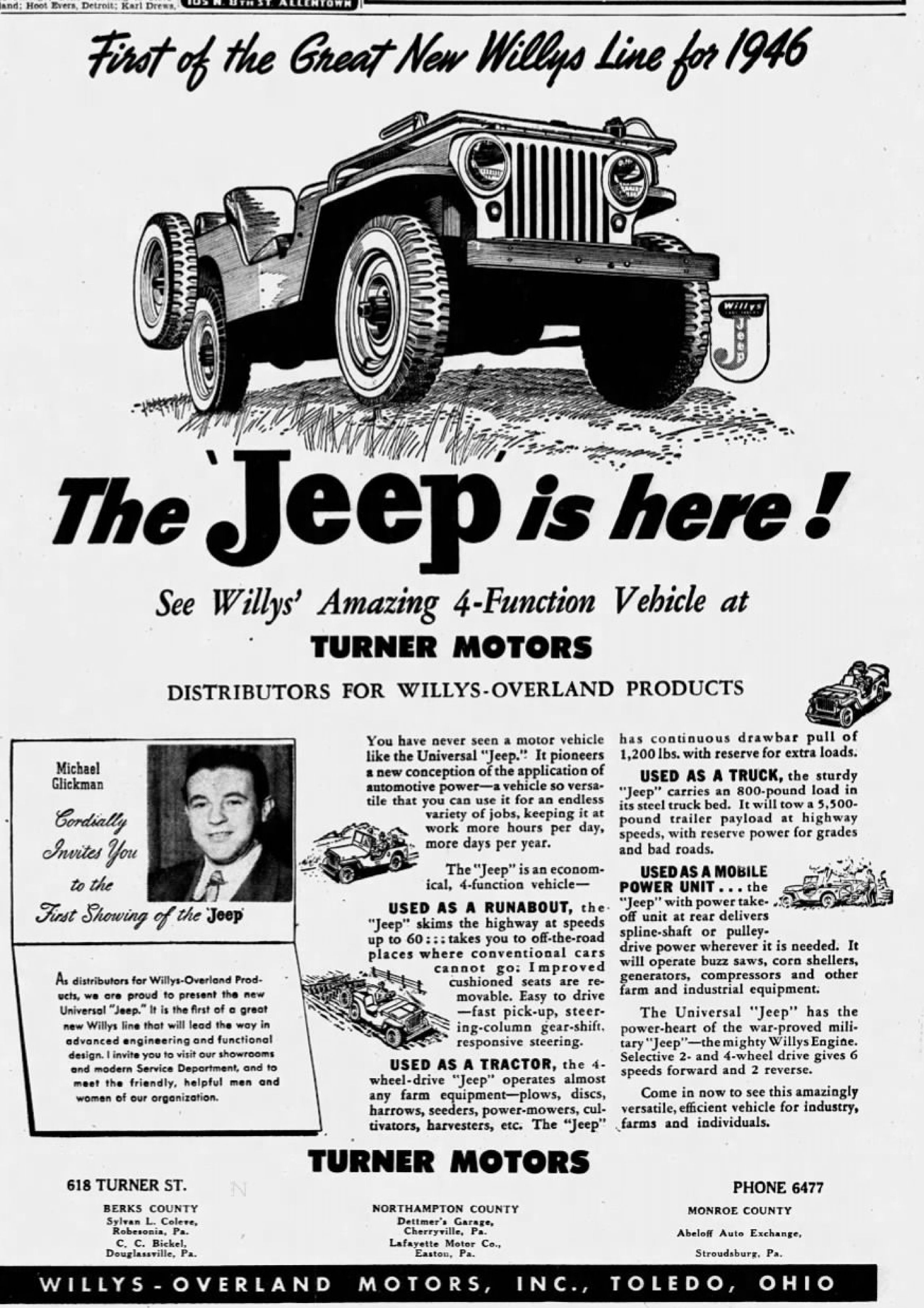 Turner Motors - 31 Jan MC - Allentown PA